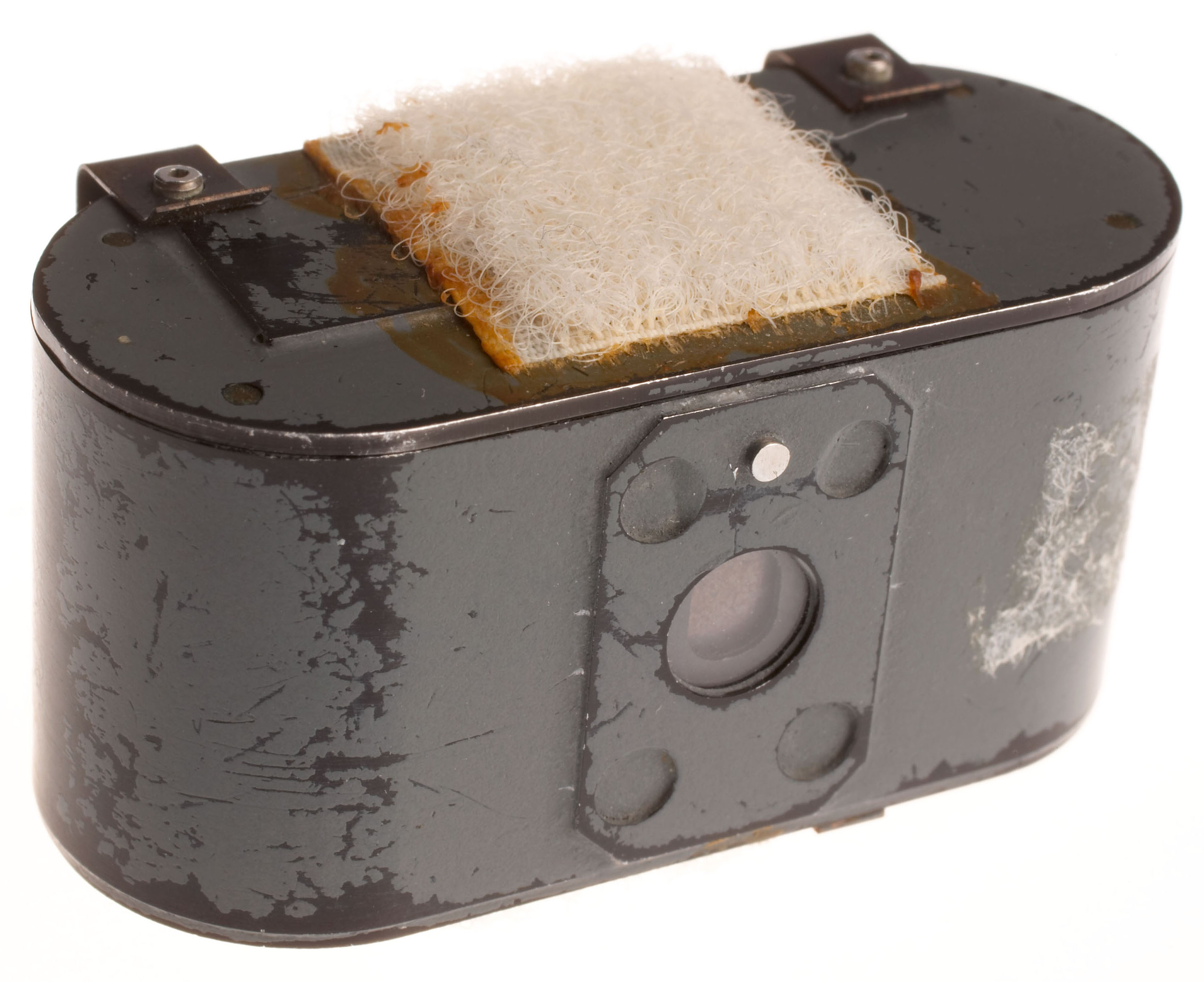 CIA’s Office of Research and Development developed a camera small and light enough to be carried by a pigeon. It would be released, and on its return home the bird would fly over a target. Being a common species, its role as an intelligence collection platform was concealed in the activities of thousands of other birds. Pigeon imagery was taken within hundreds of feet of the target so it was much more detailed than other collection platforms.